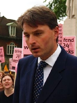 Daniel Kawczynski, British Conservative politician, in Parliament Square, London, during a demonstration as the House of Commons debated the Embryology Bill.